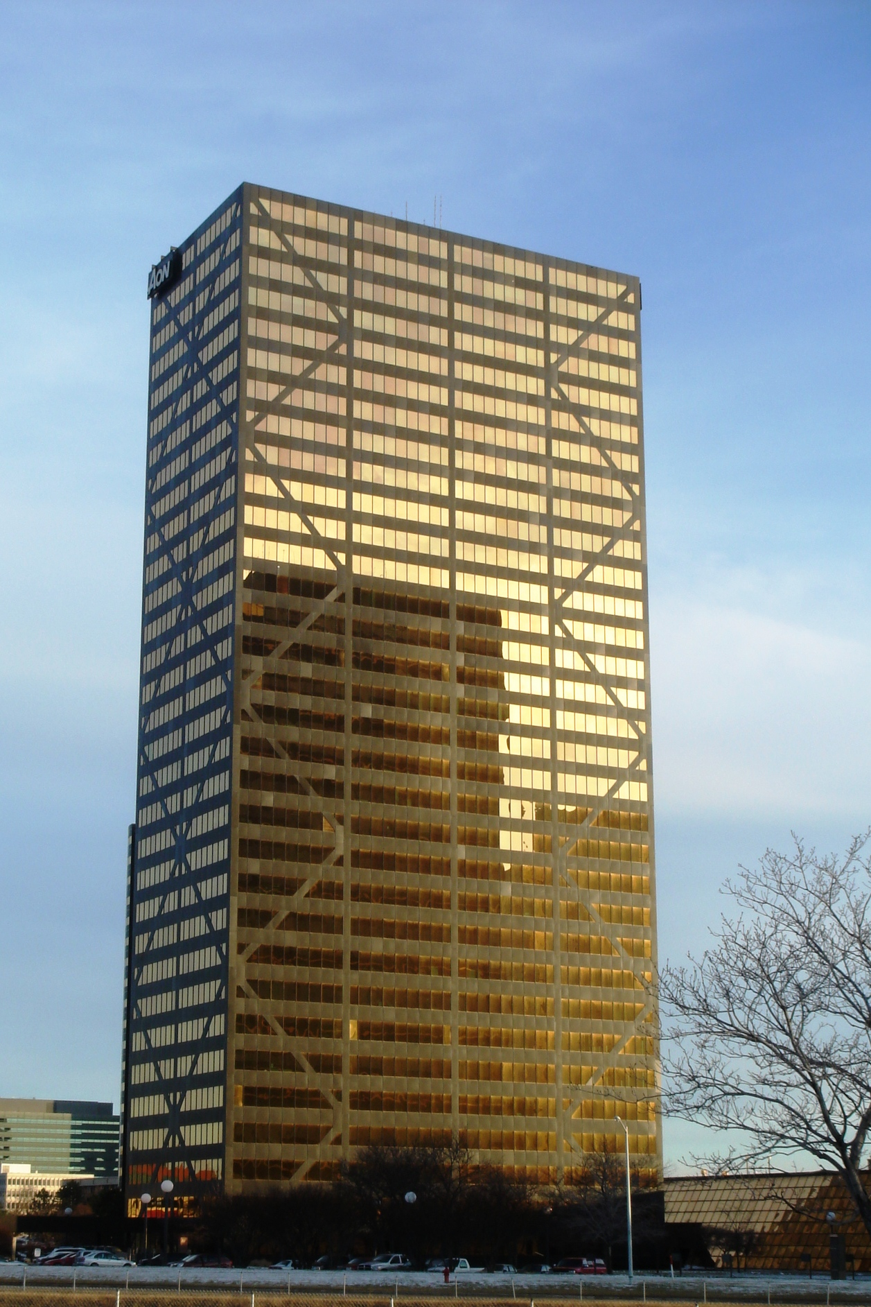 3000 Southfield Town Center, Southfield